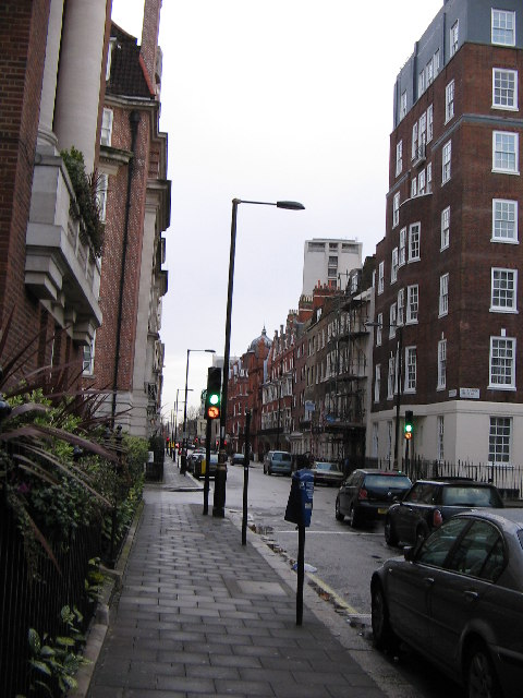 Park Street- Mayfair London. Taken from 47 Park Street Mayfair, London